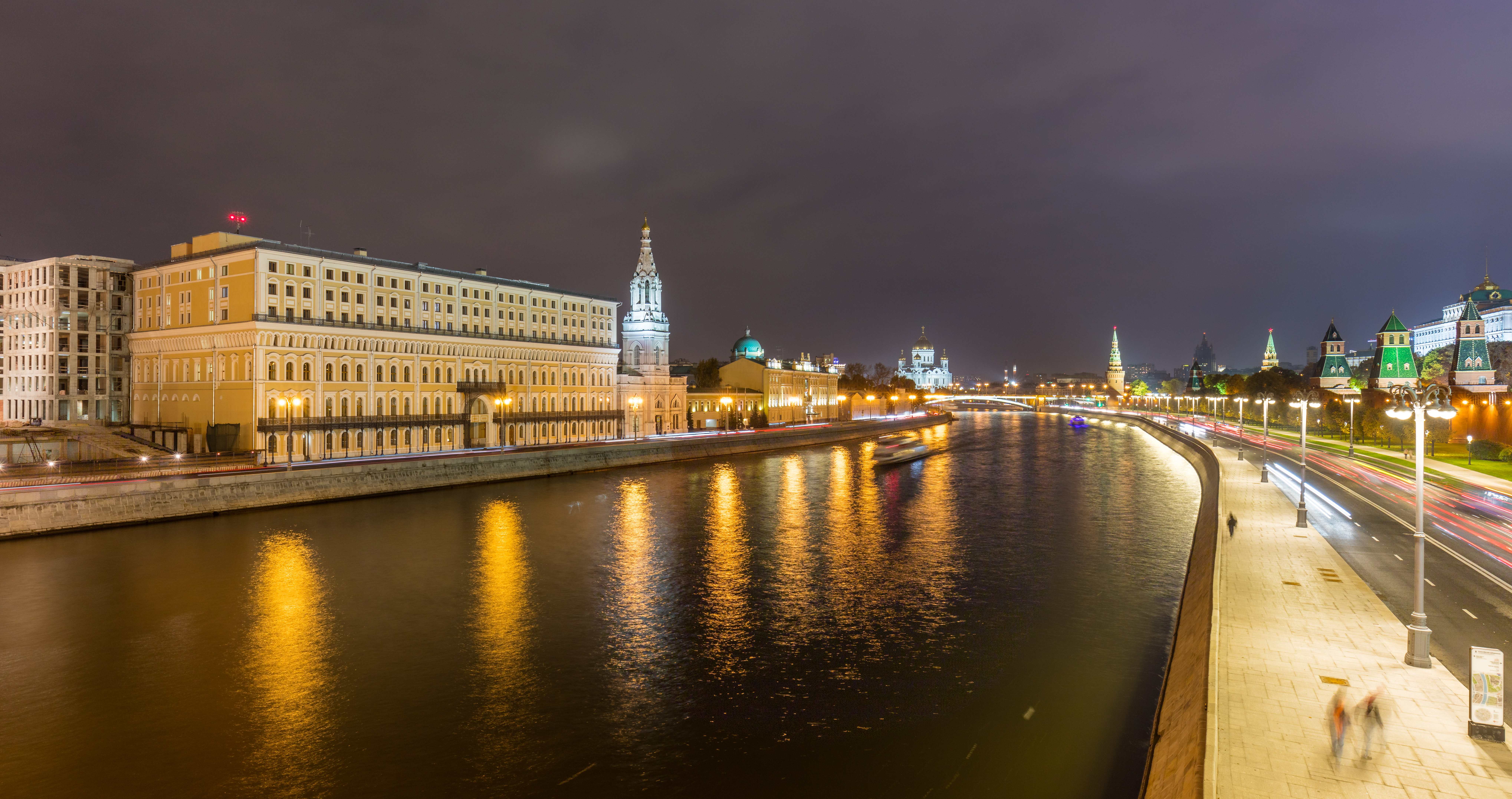 Night view of the Moskva River, Moscow, Russia. In the centre is the headquarters of the Rosneft, a petrol company, and on the right the Kremlin.